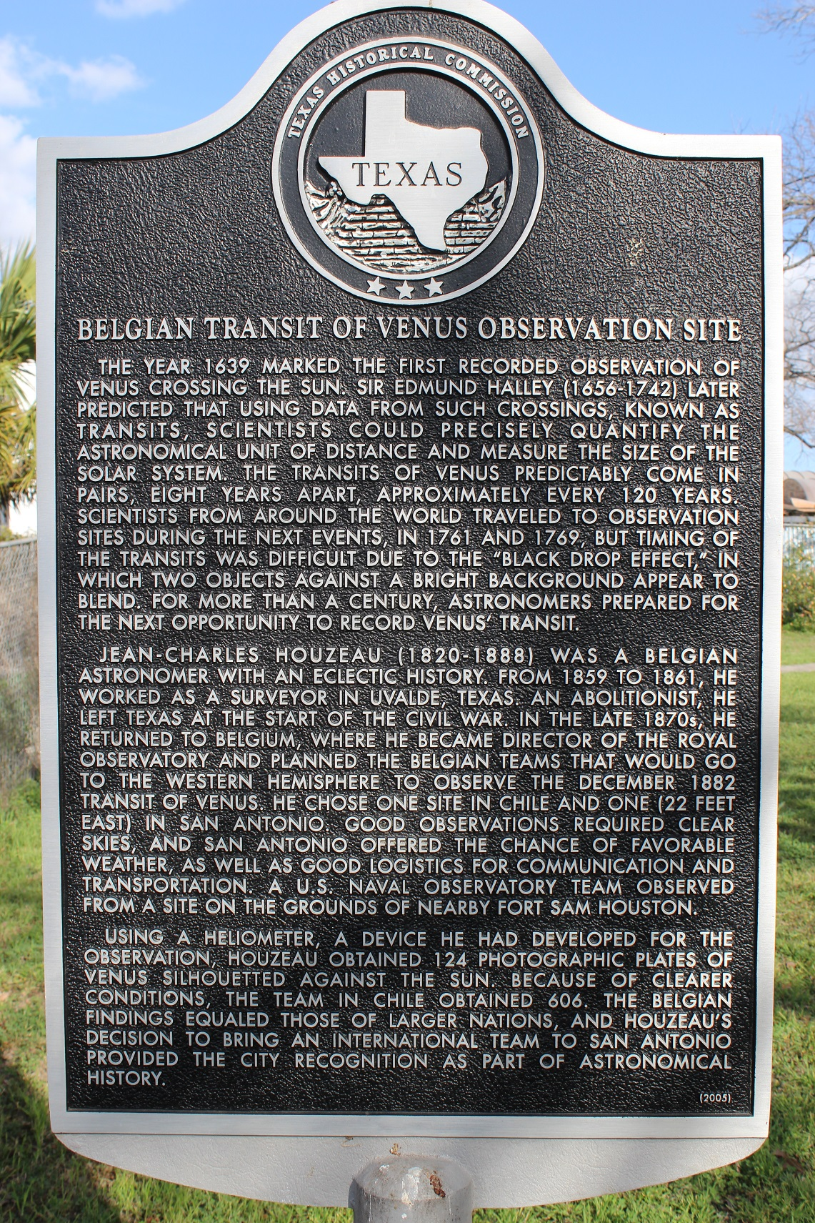 Belgian Transit of Venus Observation Site. The year 1639 marked the first recorded observation of Venus crossing the sun. Sir Edmund Halley (1656-1742) later predicted that using data from such crossings, known as transits, scientists could precisely quantify the astronomical unit of distance and measure the size of the solar system. The transits of Venus predicatably come in pairs, eight years apart, approximately every 120 years. Scientists from around the world traveled to observation sites during the next events, in 1761 and 1769, but timing of the transits was difficult due to the "black drop effect," in which two objects against a bright background appear to blend. For more than a century, astronomers prepared for the next opportunity to record Venus' transit. Jean-Charles Houzeau (1820-1888) was a Belgian astronomer with an eclectic history. From 1859 to 1861, he worked as a surveyor in Uvalde, Texas. An abolitionist, he left Texas at the start of the Civil War. In the late 1870s, he returned to Belgium, where he became director of the Royal Observatory and planned the Belgian teams that would go to the western hemisphere to observe the December 1882 transit of Venus. He chose one site in Chile and one (22 feet east) in San Antonio. Good observations required clear skies, and San Antonio offered the chance of favorable weather, as well as good logistics for communication and transportation. A U.S. Naval Observatory team observed from a site on the grounds of nearby Fort Sam Houston. Using a heliometer, a device he had developed for the observation, Houzeau obtained 124 photographic plates of Venus silhouetted against the sun. Because of clearer conditions, the team in Chile obtained 606. The Belgian findings equaled those of larger nations, and Houzeau's decision to bring an international team to San Antonio provided the city recognition as part of astronomical history. (2005) #13266